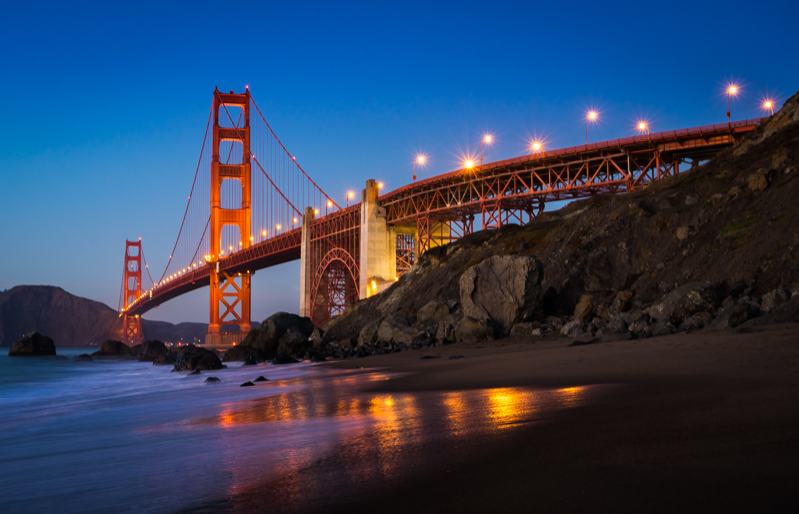 Golden Gate bridge from Marshal beach